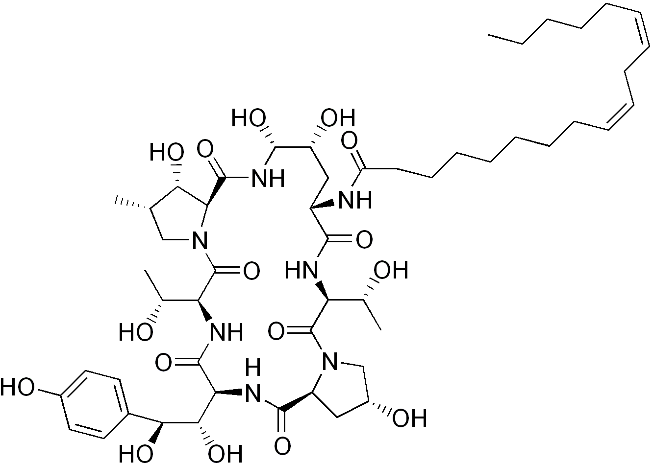 chemical structure of Echinocandin B